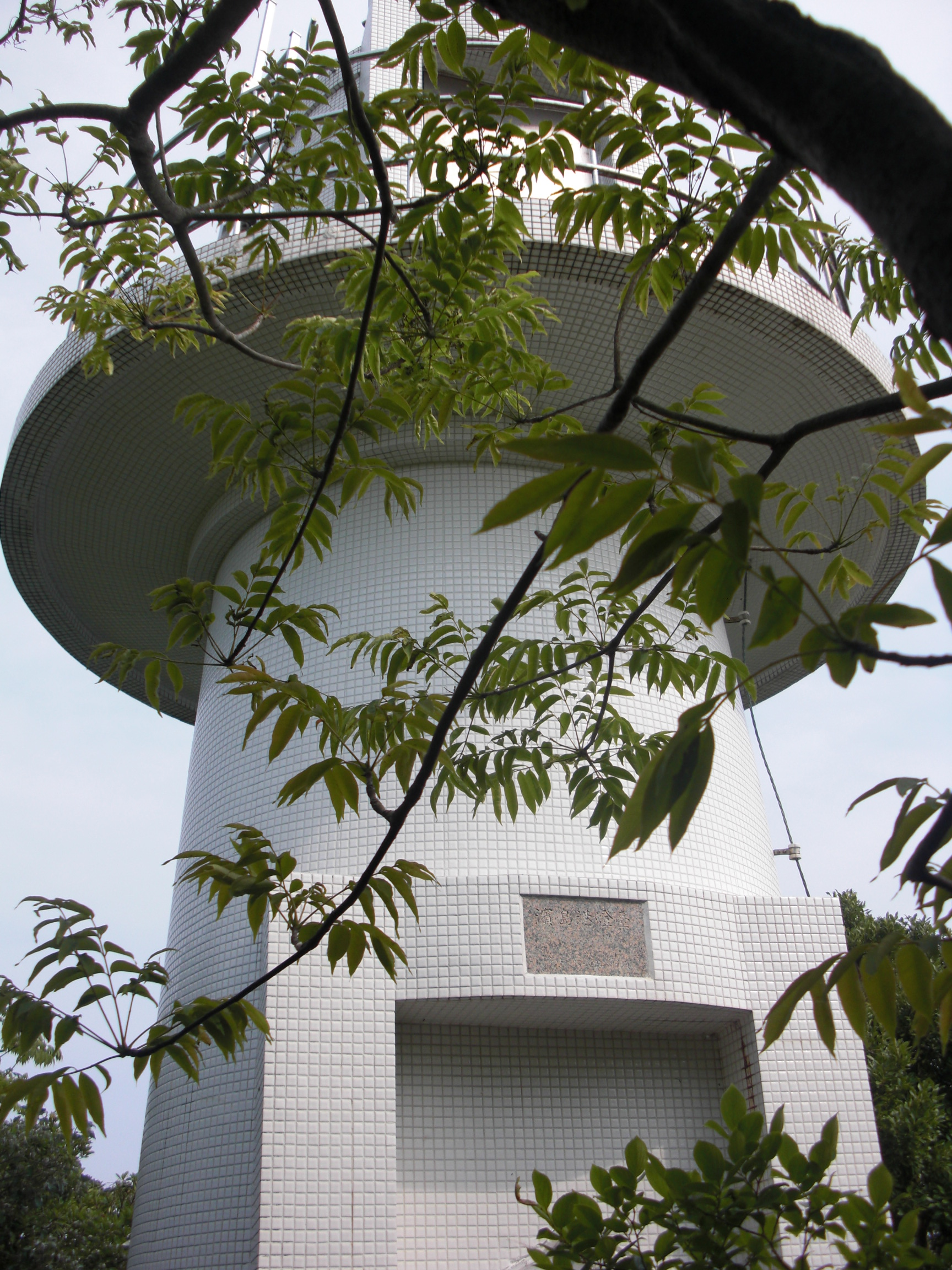 This is a lighthouse in Shima, Mie, Japan.